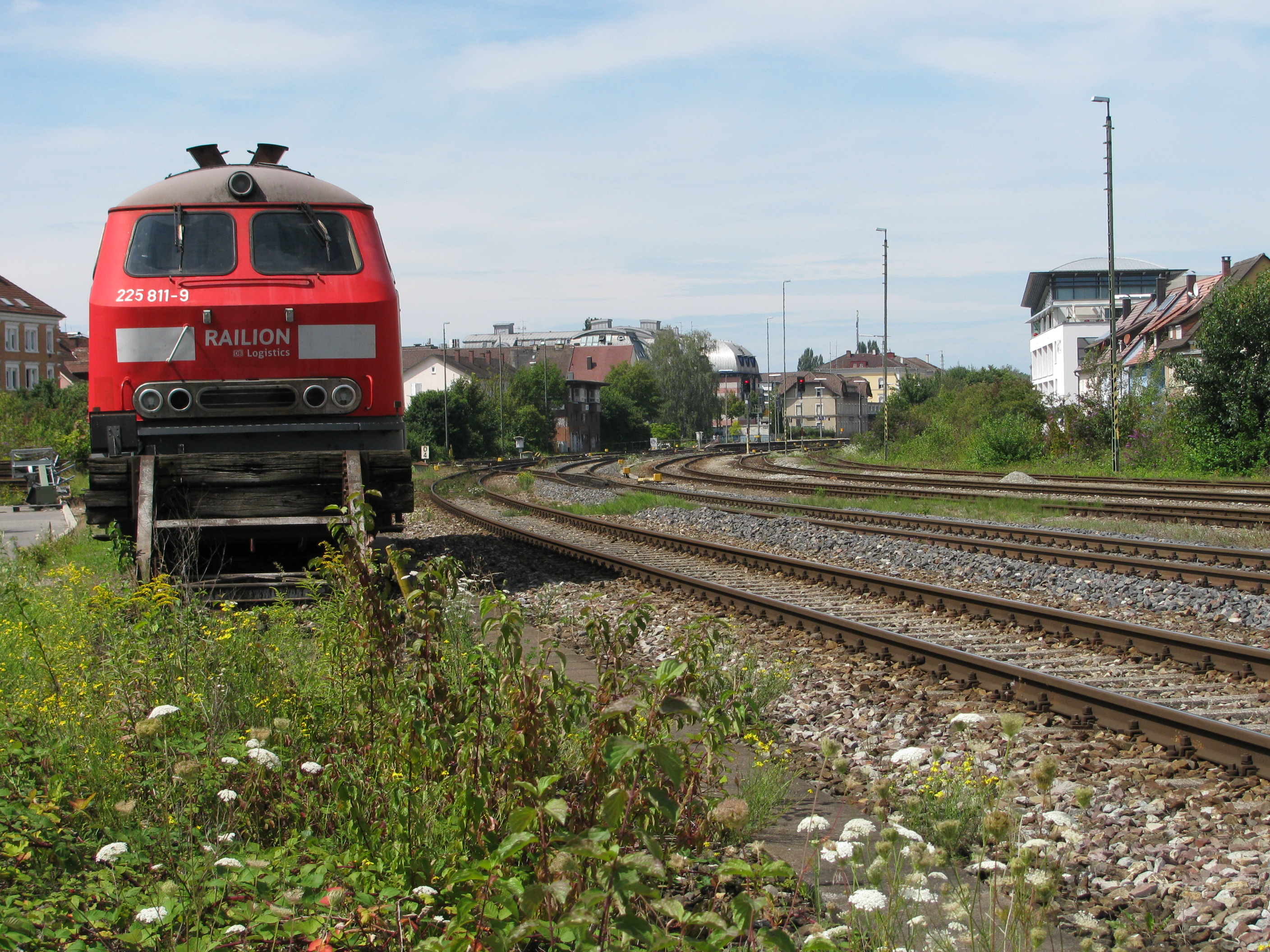 Germany - Baden-Württemberg - Bodenseekreis - Friedrichshafen: station site, direction Lindau and airport/Ravensburg